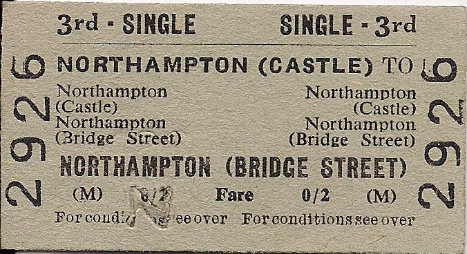 Ticket issued by British Railways for Northampton railway station, dated 11 June 1957.